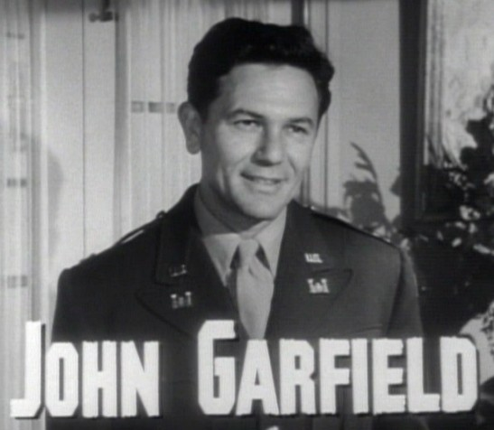 Cropped screenshot of John Garfield from the trailer for the film Gentleman's Agreement.